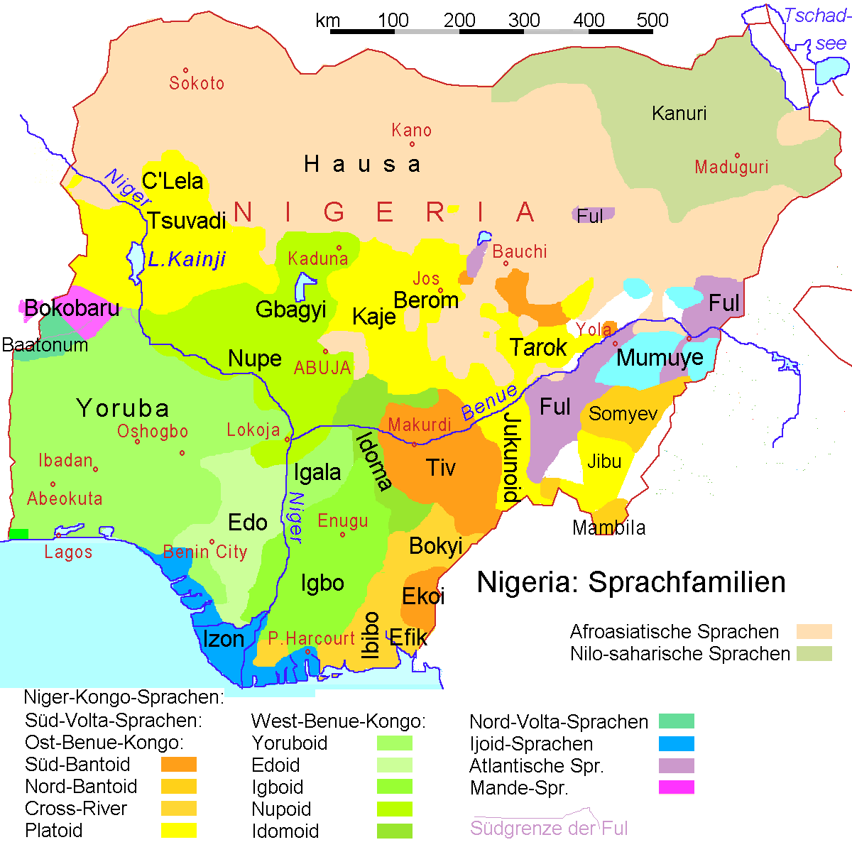 Language Groups and important languages of Nigeria